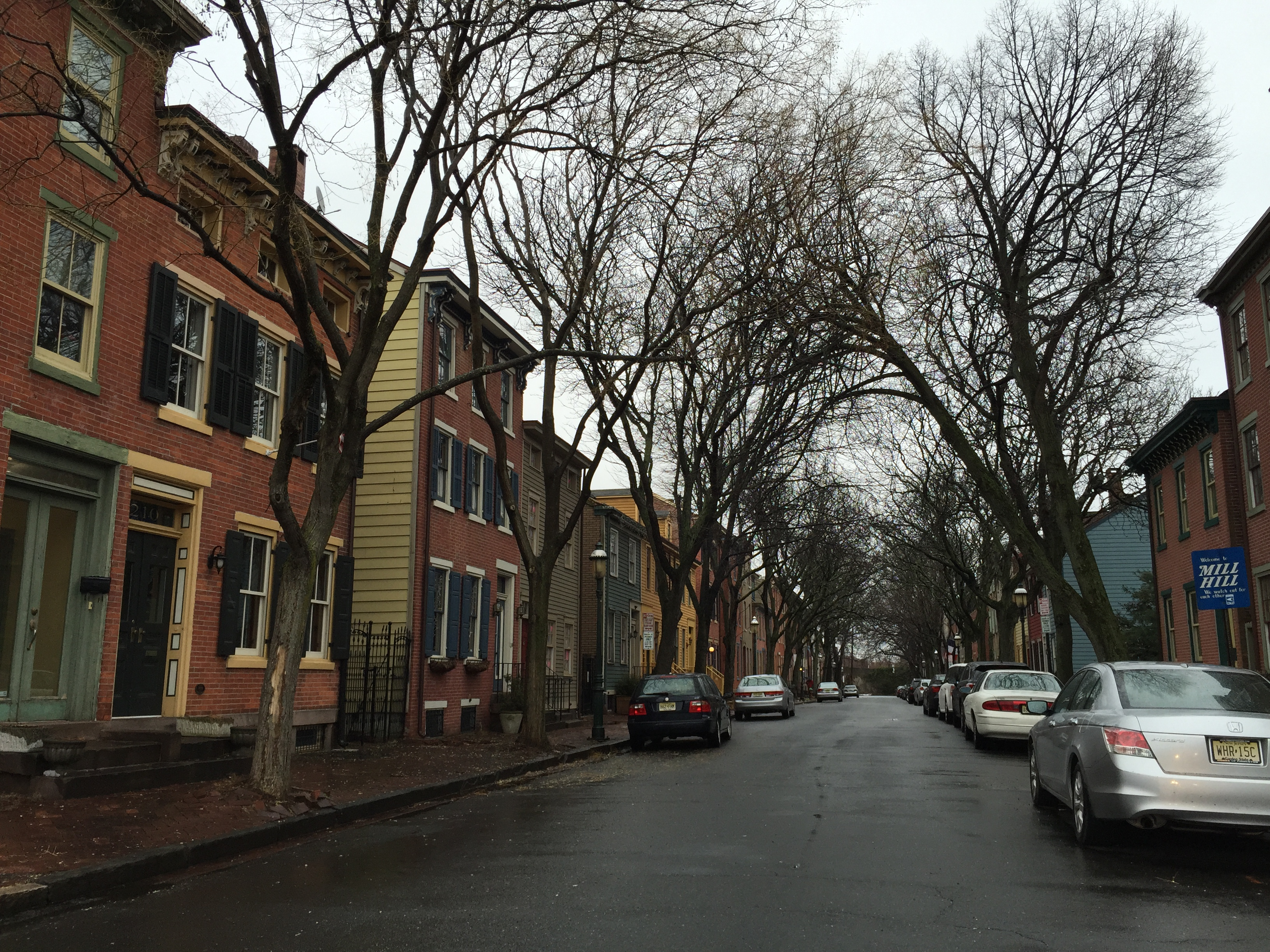 View southeast along Mercer Street just southeast of Market Street in the Mill Hill section of Trenton, New Jersey